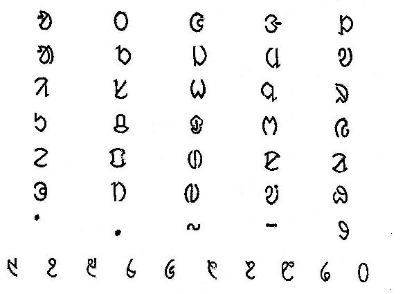 ol chiki script (writing of santali language )